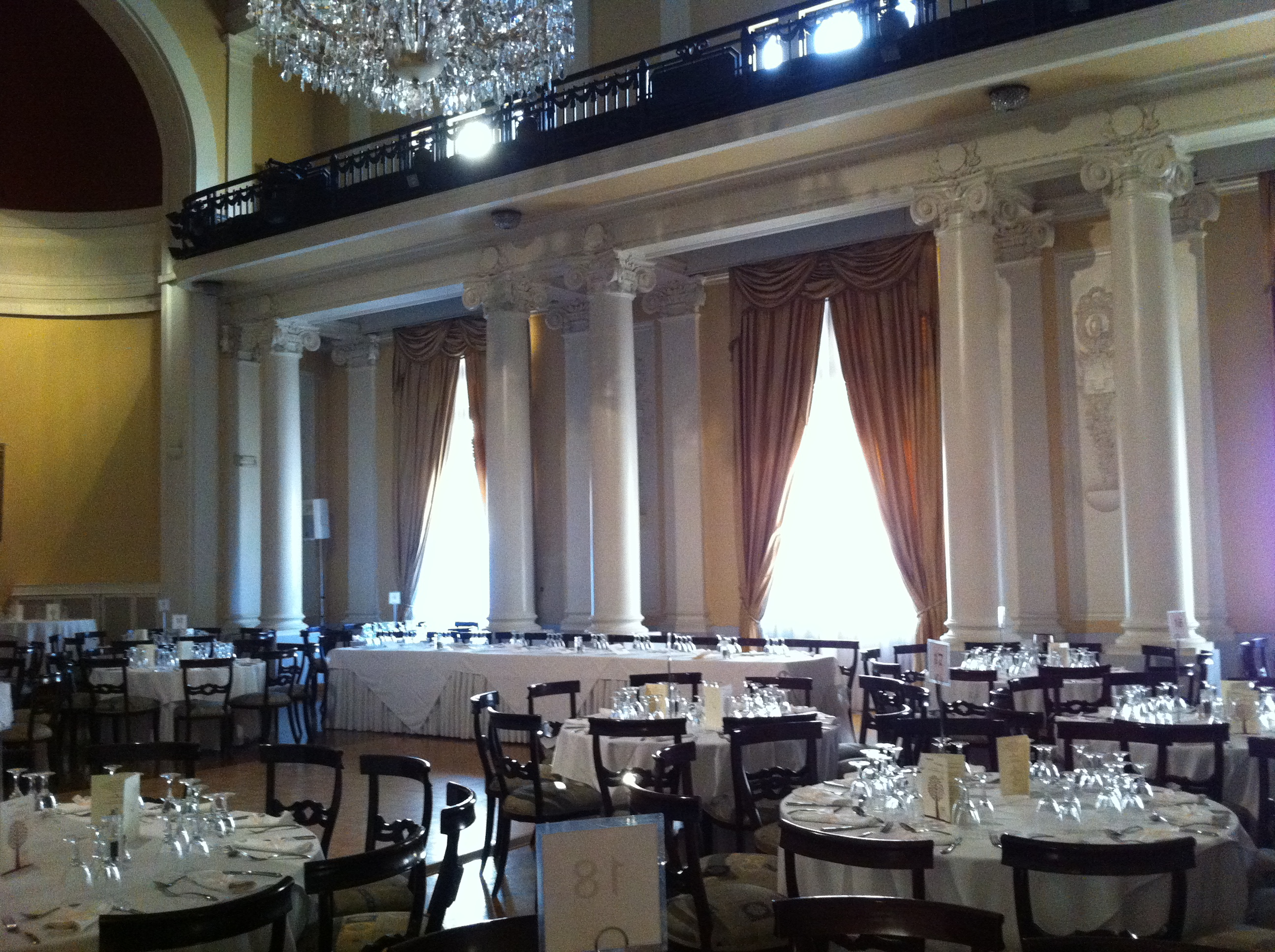 Interior of Saroglio building in Athens